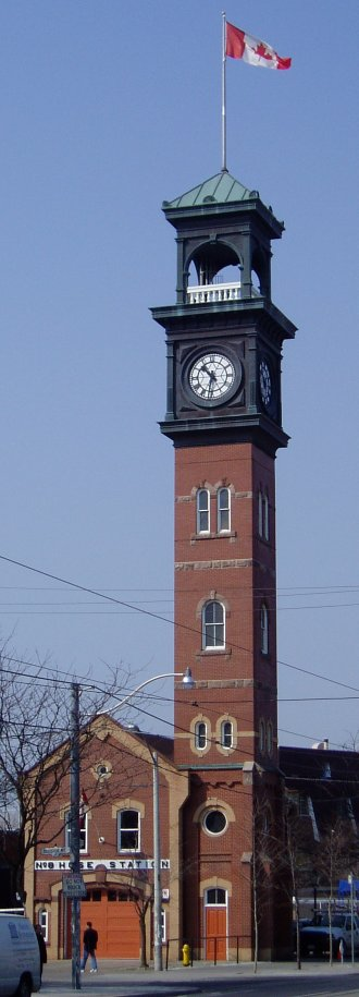 Taken by SimonP in April 2005